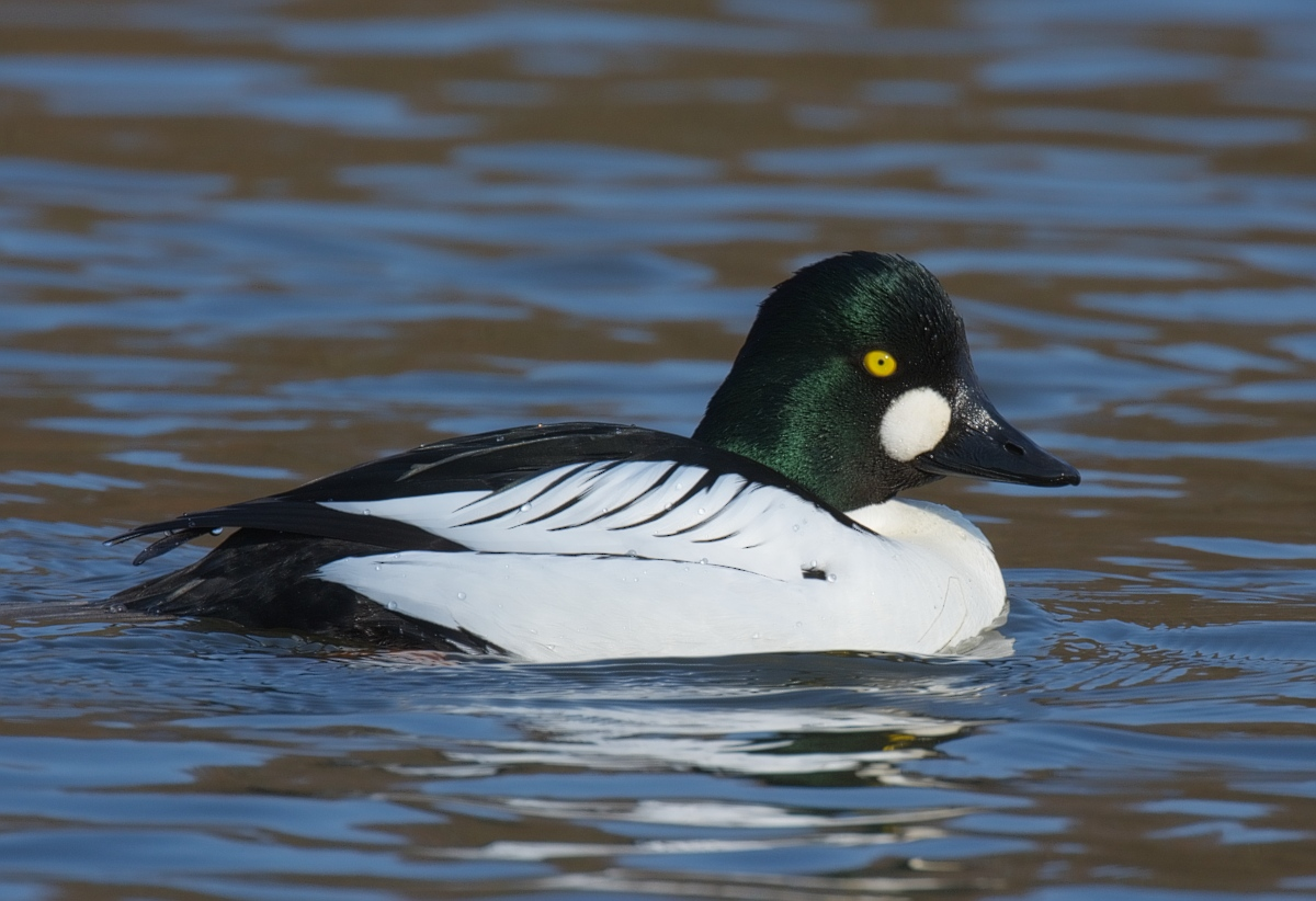 Common Goldeneye Bucephala clangula, Slottsskogen, Göteborg, Sweden